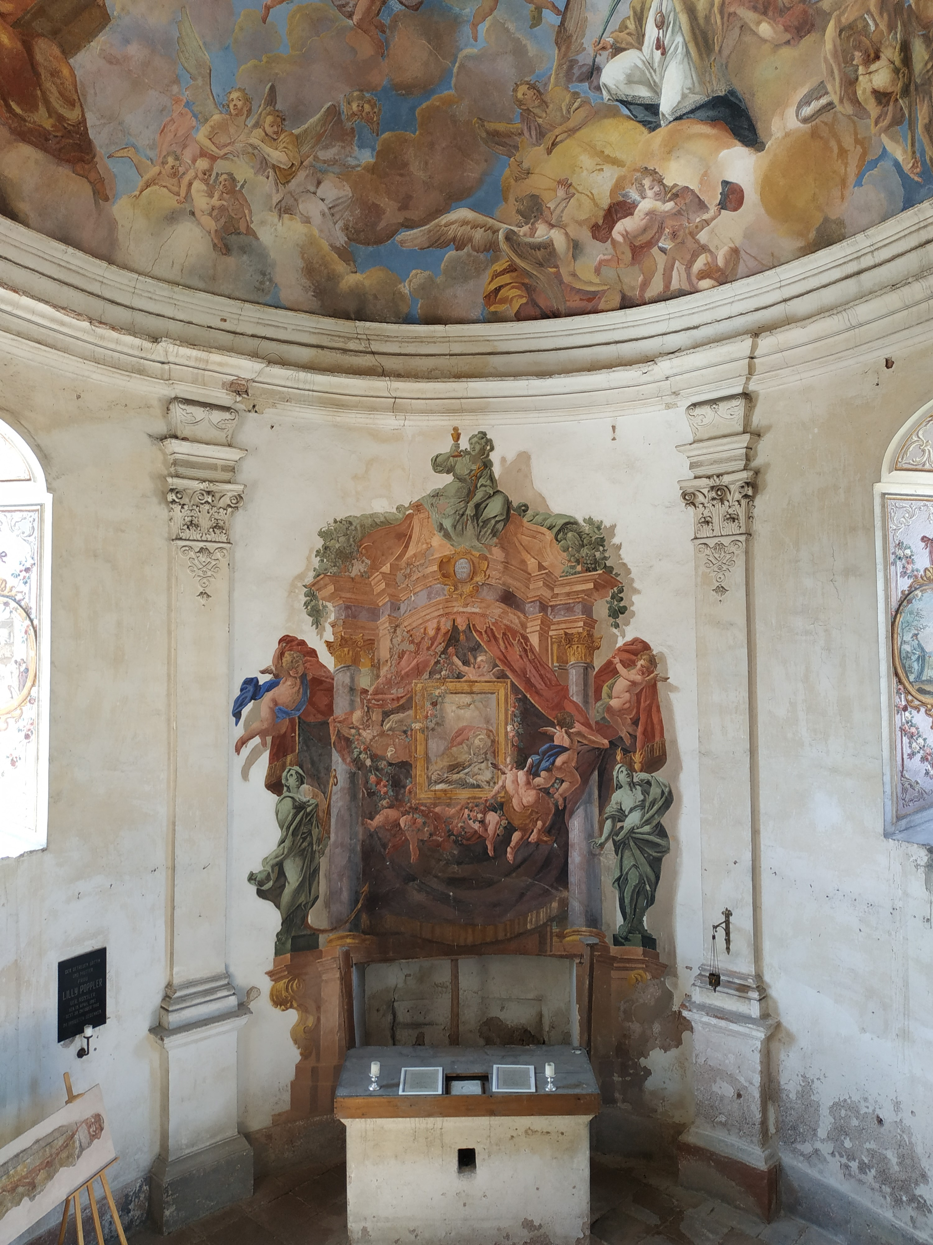 John of Nepomuk chapel in Sarny Palace (Schloss Scharfeneck), Ścinawka Górna, Lower Silesian Voivodeship, Poland